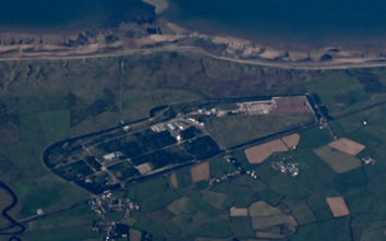 Drigg Low Level Waste Repository from the air